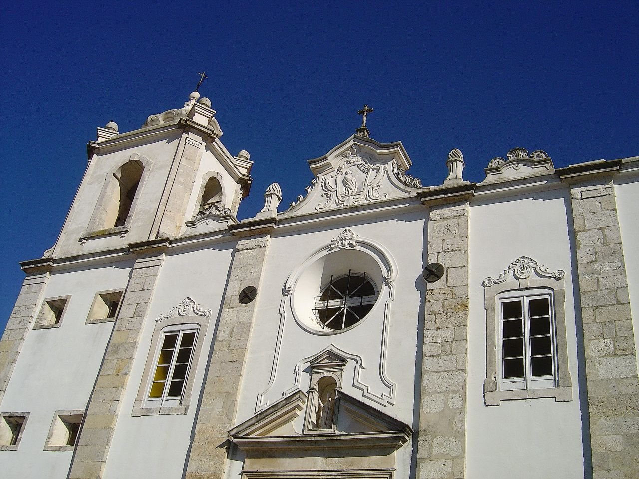 See where this picture was taken. [?]